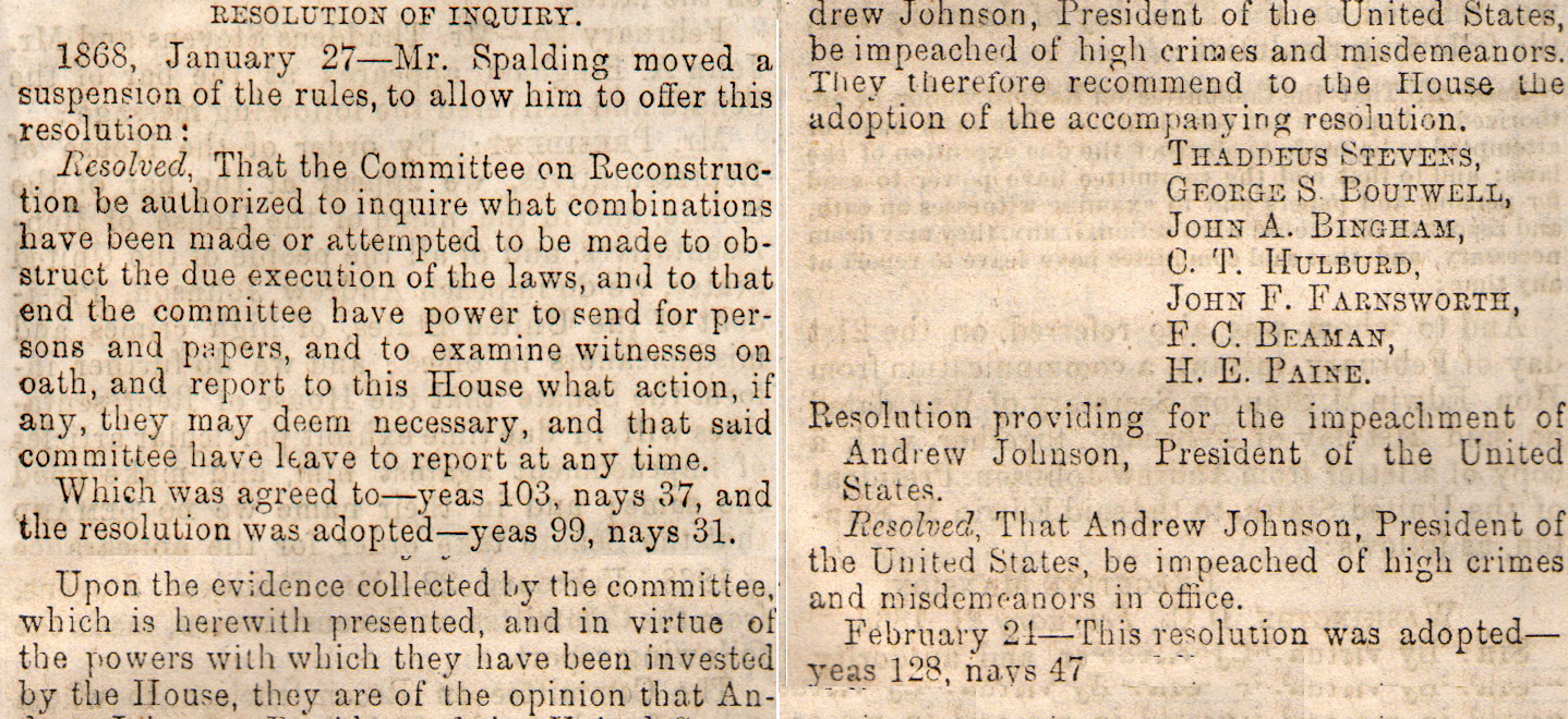 Text of the Resolutions of Inquiry and Impeachment of President Andrew Johnson